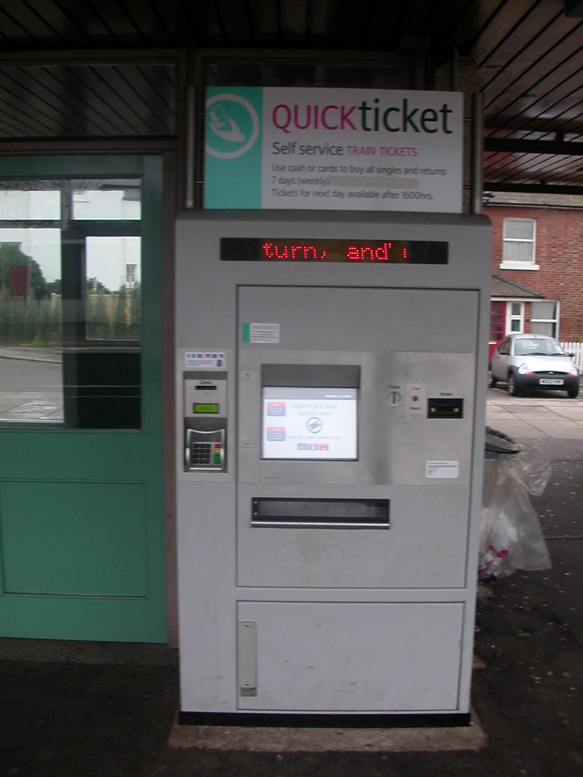 Shere FASTticket machine at Hassocks (Pfm 1). Photographed on 26th December 2006.